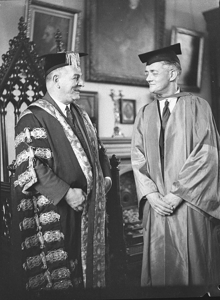 Honorary Doctor of Laws (ad eundem gradum) degree conferred on Lord Nuffield